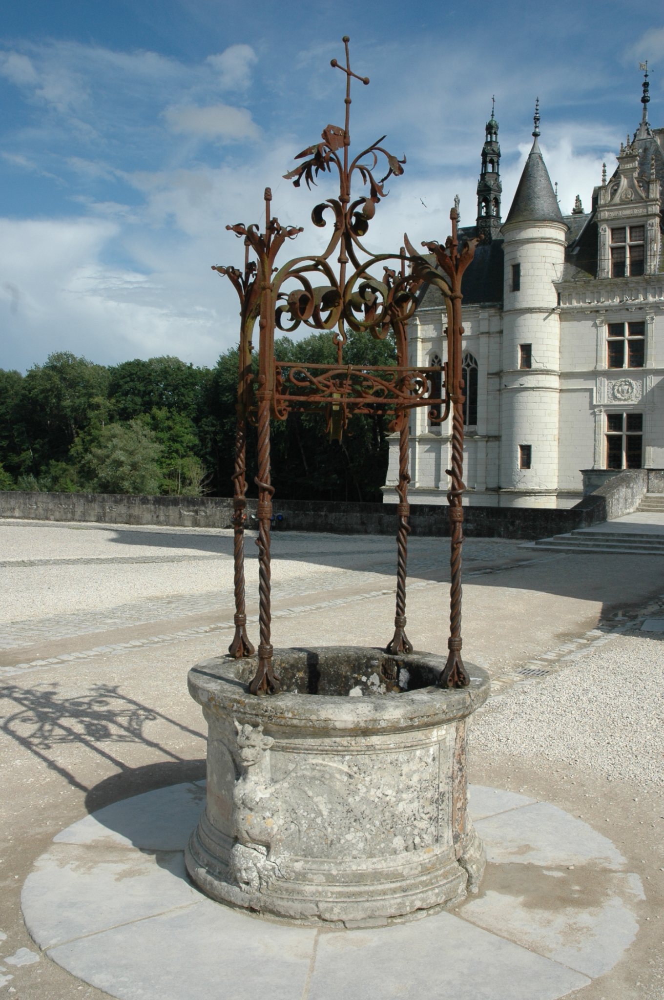 Château de Chenonceau, medieval well